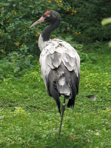 Black-necked Crane at Bronx Zoo.